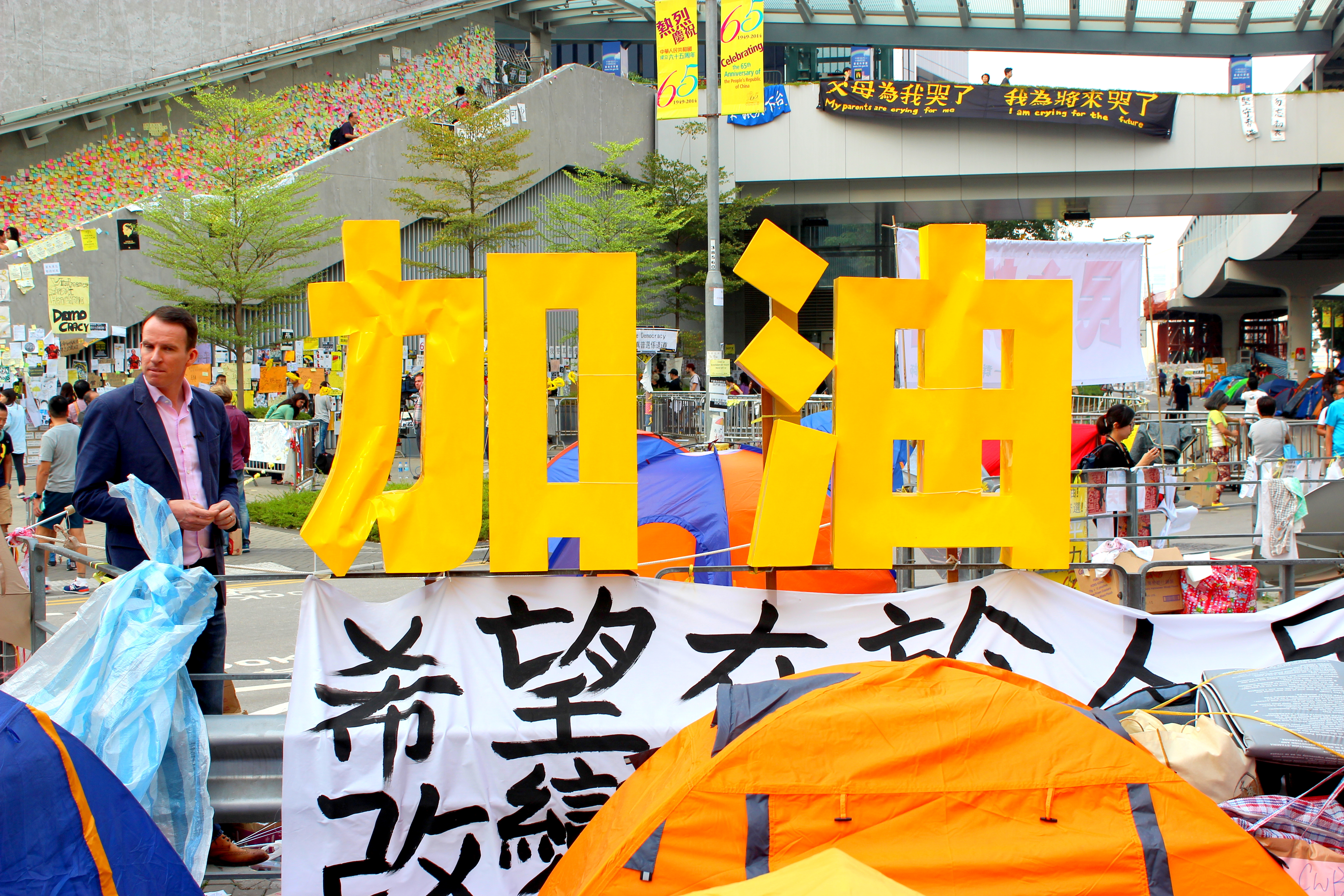 Jia You - Add Oil - Carry On - Hang In Tough - Keep At It ... at Admiralty Hong Kong